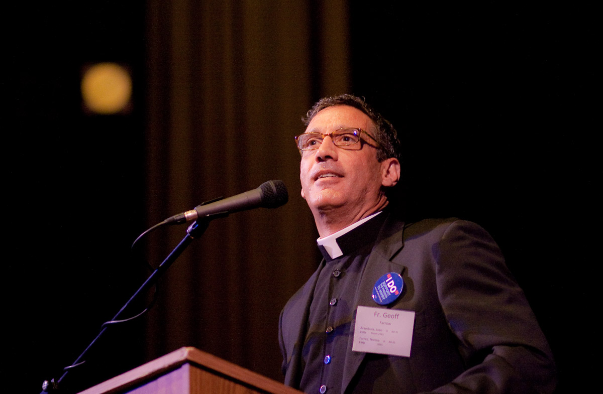 Father Geoffrey Farrow, speaking on February 17, 2009 at a marriage equality lobby event in Sacramento, California.